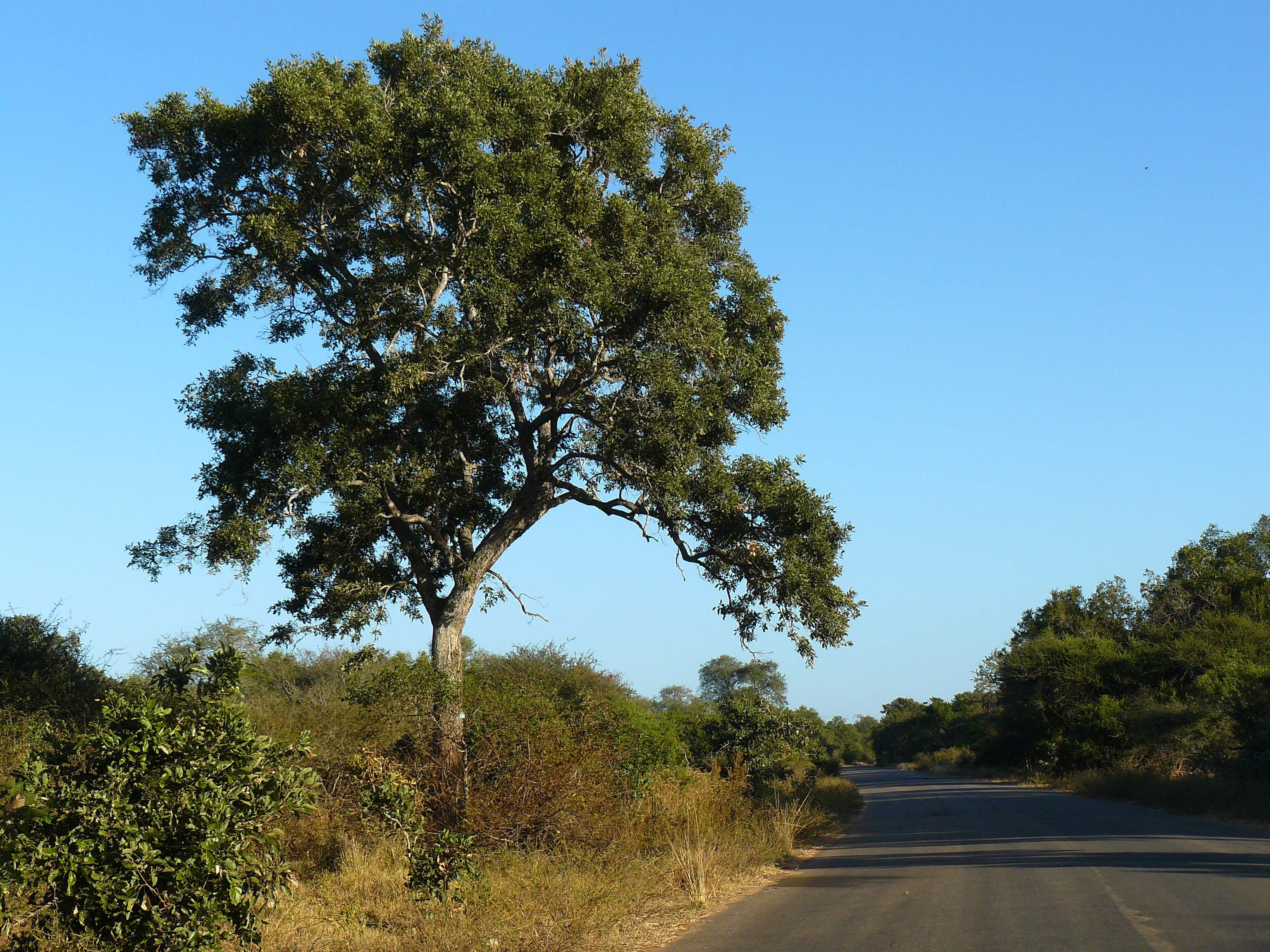 Apple leaf in the southern Kruger National Park, South Africa. Several smaller specimens are visible alongside it.